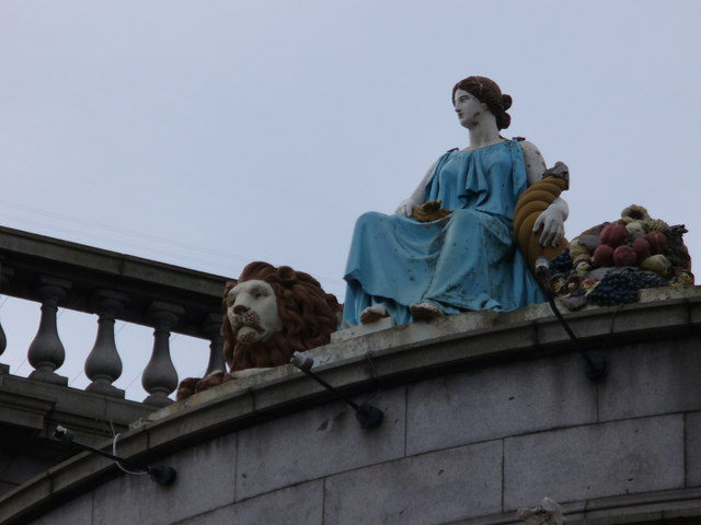 Ceres, Goddess of Plenty Statue on the top of Aberdeen's Union Chambers, formerly Clydesdale Bank, now the Archibald Simpson pub. This is at the corner of Union Street and King Street.